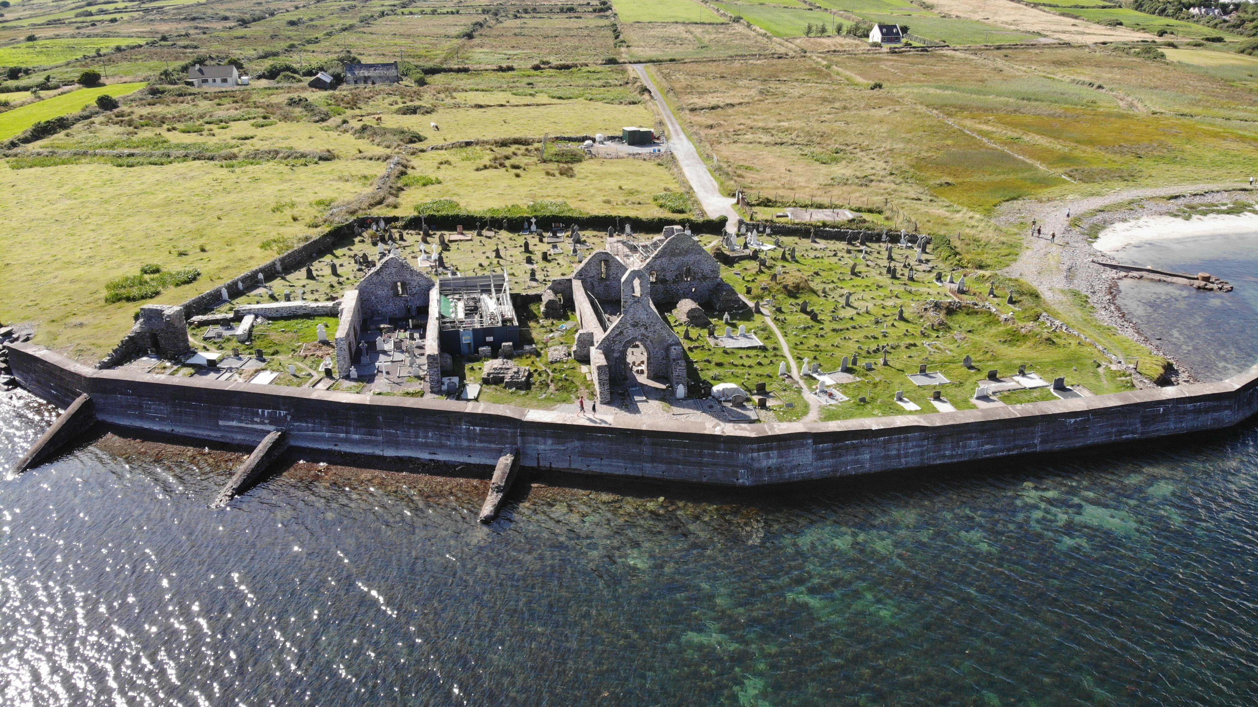 Aerial view of Ballinskelligs Priory and seawall.